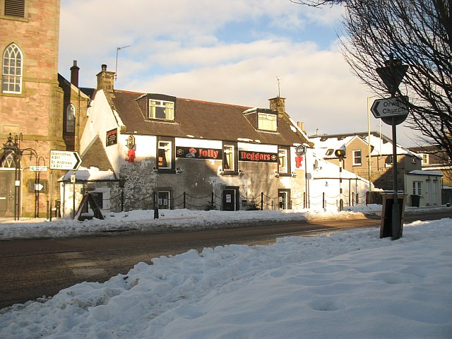 Jolly Beggars, Milnathort At the centre of Milnathort - on New Road. The junction in the foreground is between Stirling Road, Wester Loan, New Street and South Street and is a mini roundabout.